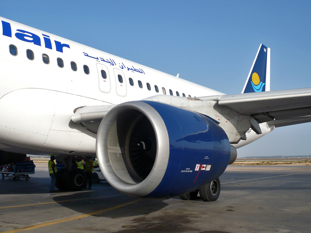 Airbus A320 stand at Monastir airport.